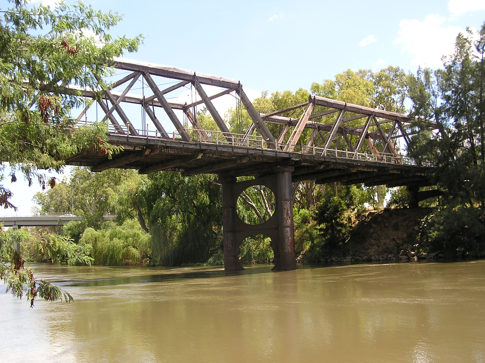 Bridge over Murrumbidgee River at Wagga Wagga, New South Wales Built 1895 an example of an Allen Truss bridge Picture by AYArktos